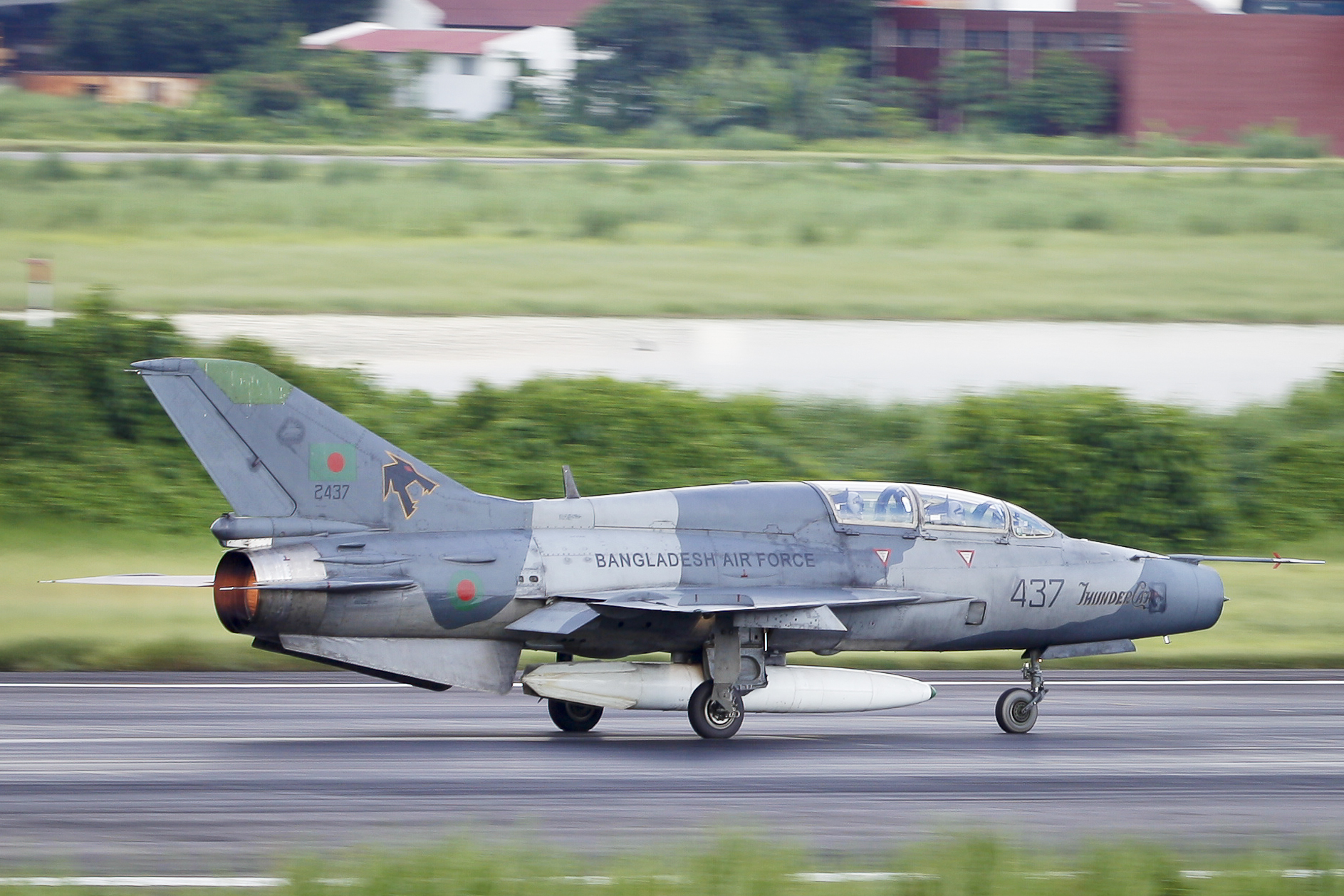 437 Bangladesh Air Force F-7 Air Guard Running For Takeoff